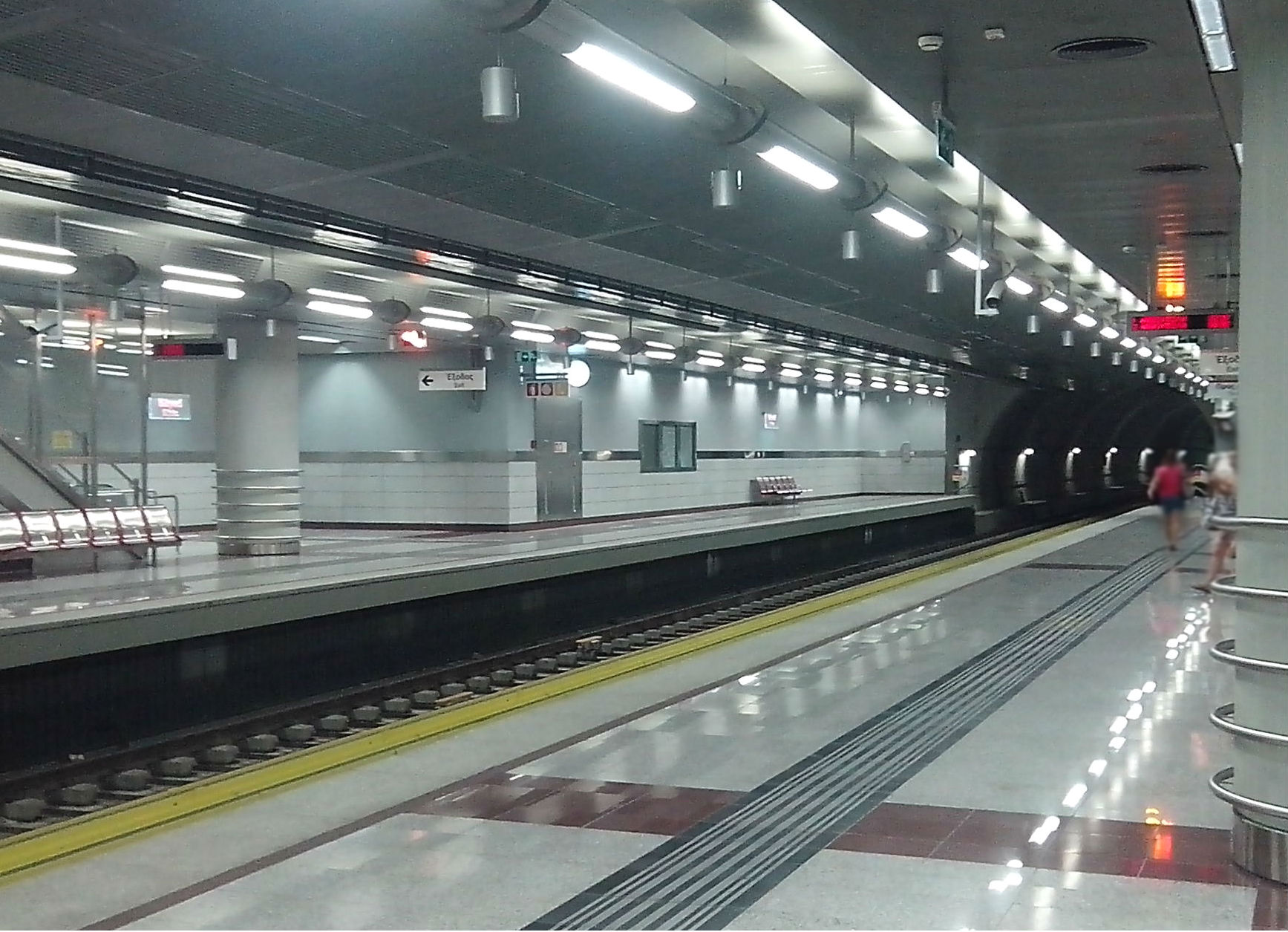 Hellinikon station, athens metro